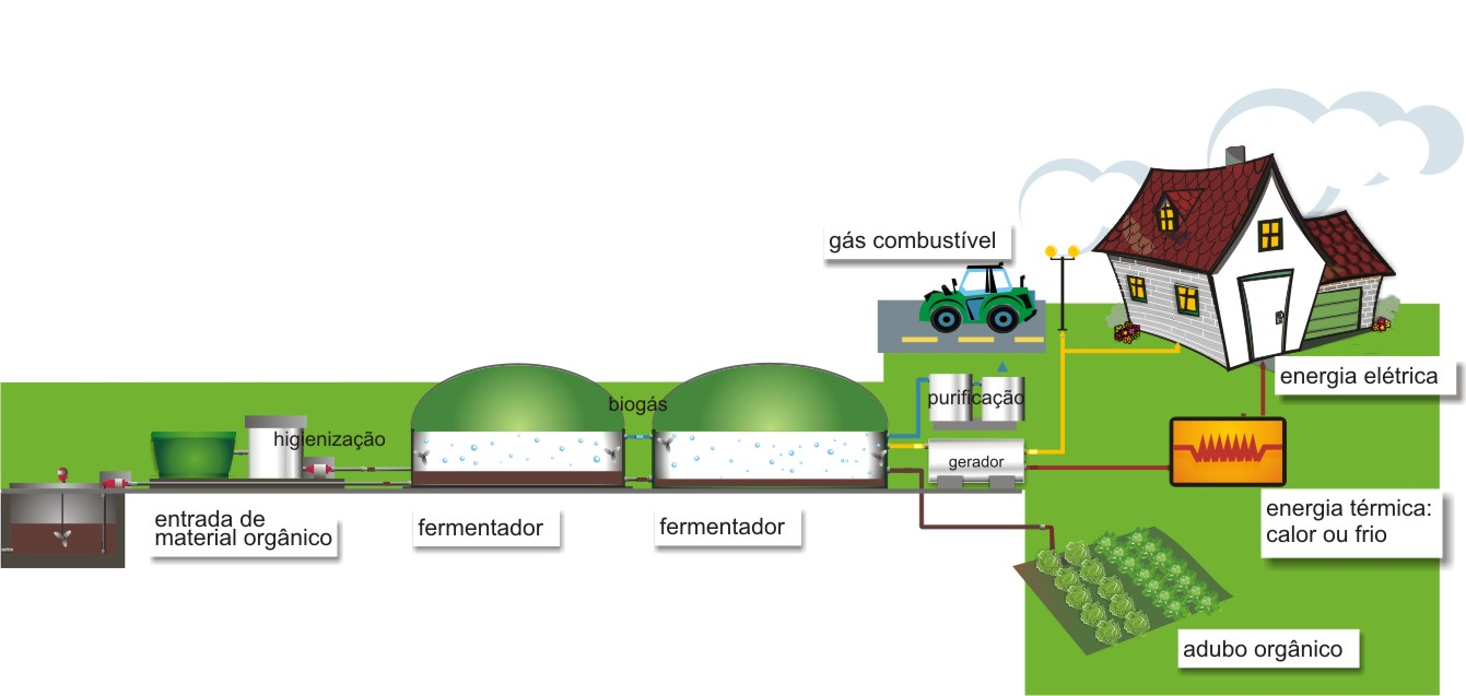 Biogas Plant - Diagram